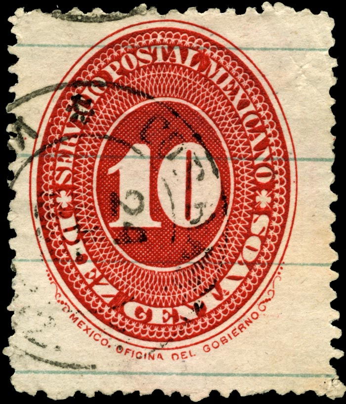 Mexico 10c stamp of 1887 on blue-lined paper